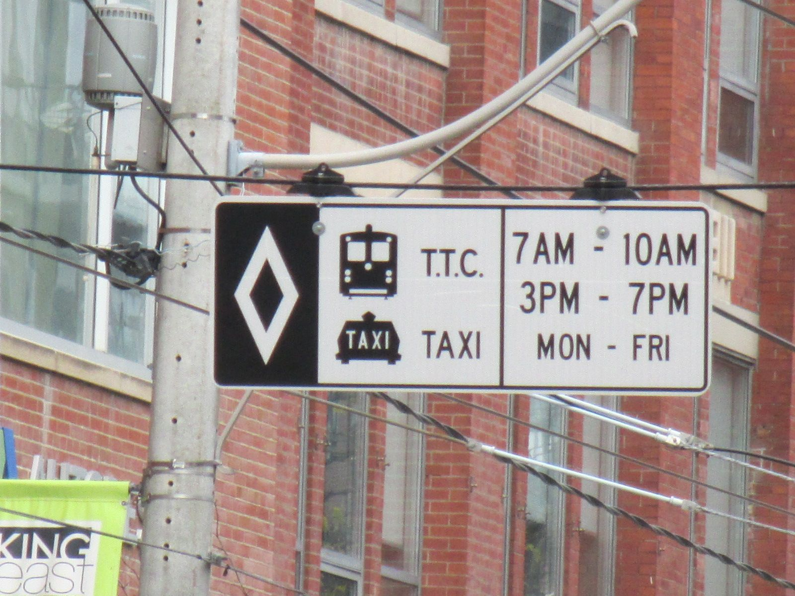 One of a series of signs along King Street between Dufferin and Parliament streets informing motorists that the streetcar lanes are only for TTC vehicles and taxis during the rush hours.